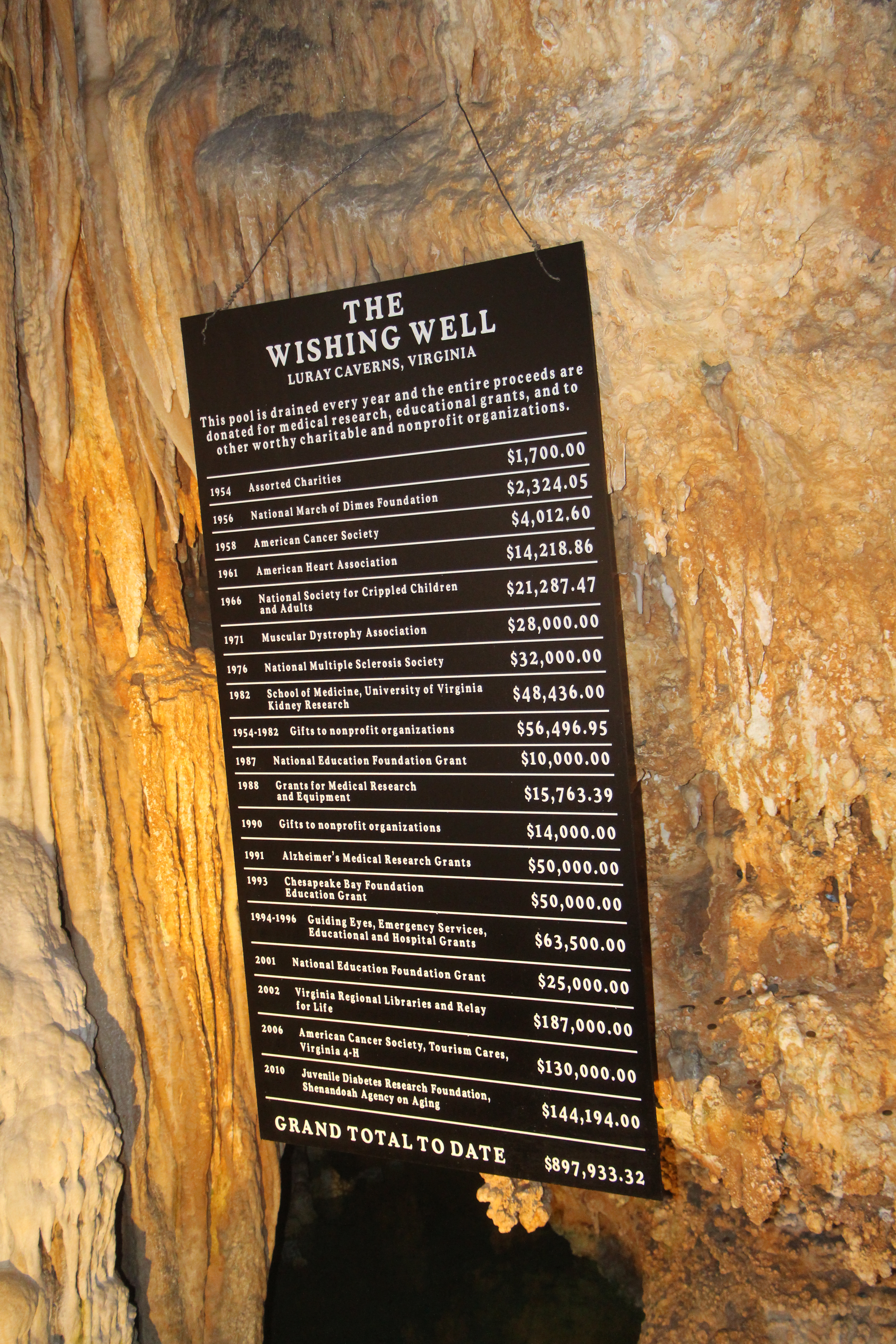 The sign next to the Wishing Well explaining how much money is given to different charities by throwing money in the Wishing Well. It shows the grand total every year and total of the totals.